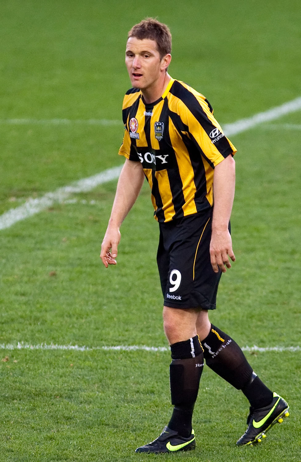 Chris Greenacre playing for the Wellington Phoenix against Sydney FC in the 2009-10 A-League.